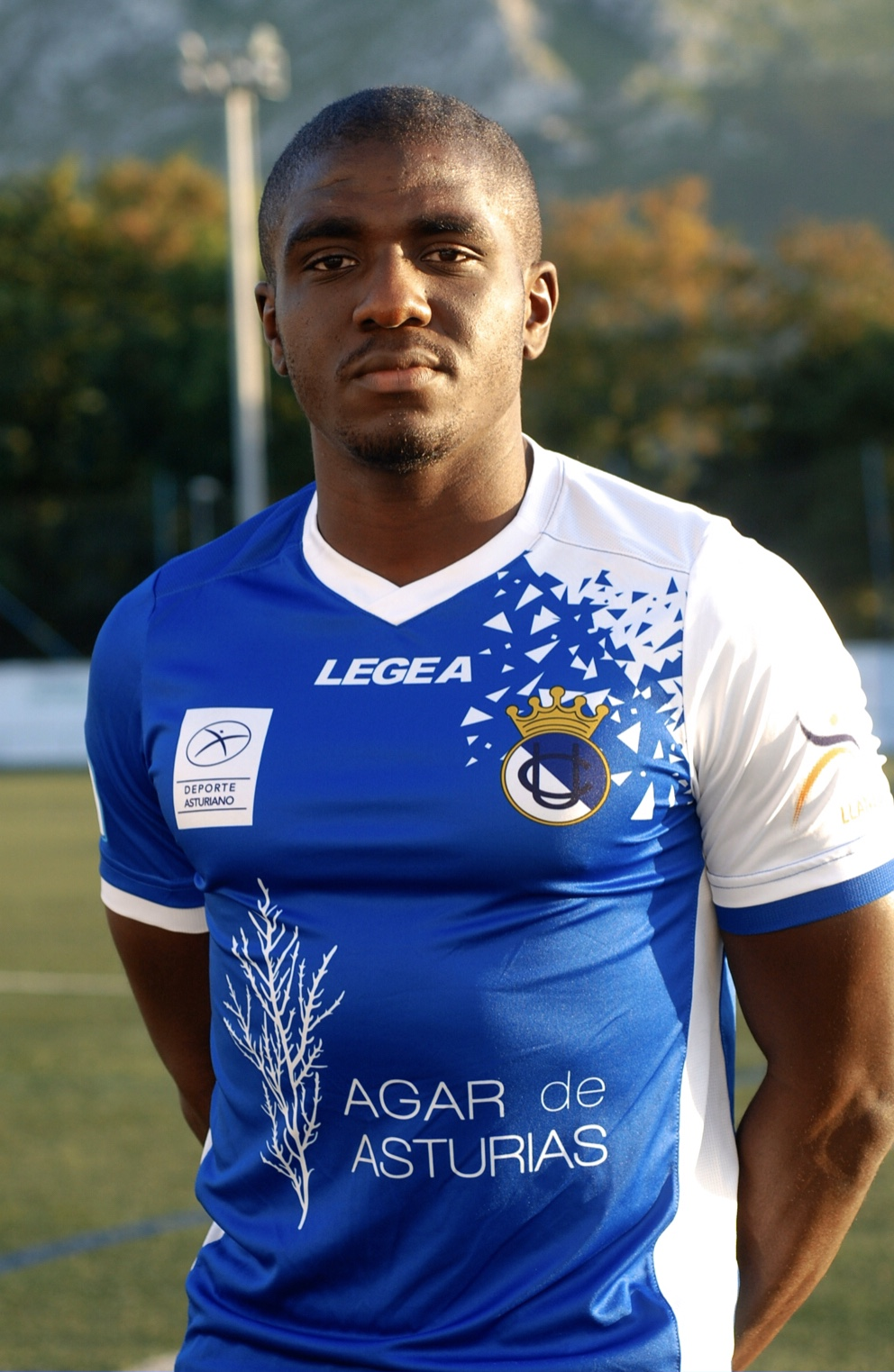 football squad player